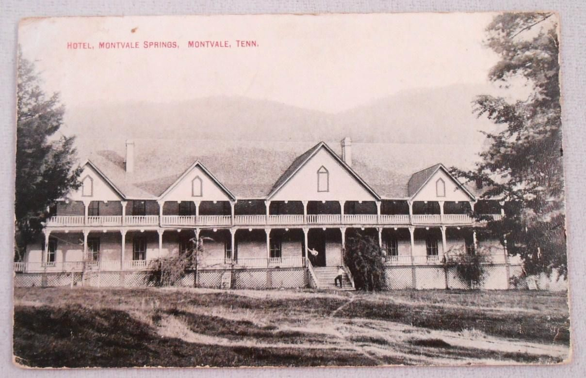 Vintage 1910 Postcard - Hotel Montvale Springs, TN - Knox & Walland RPO